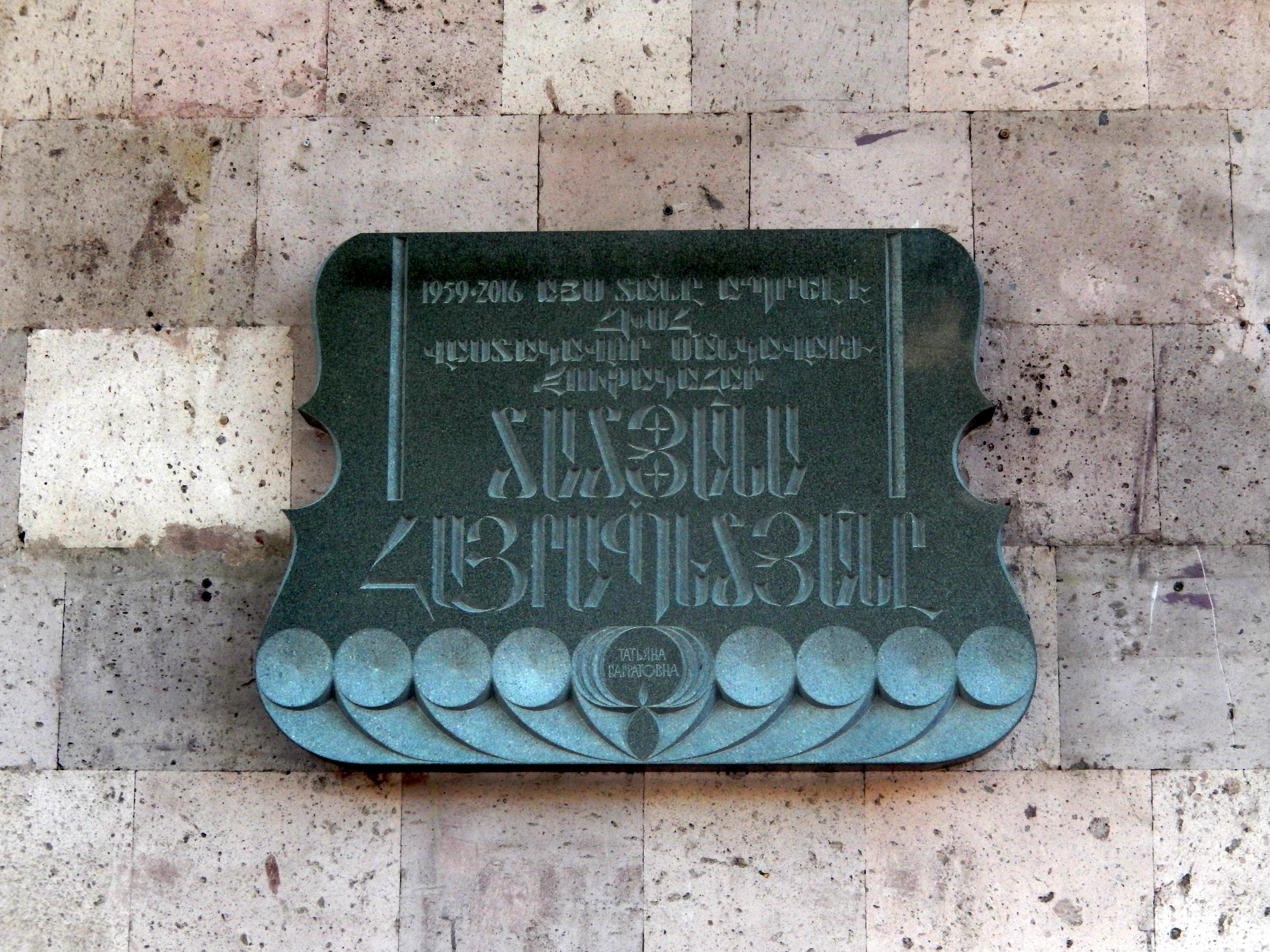 Tatyana Hayrapetyan's Plaque on Charents street, Yerevan